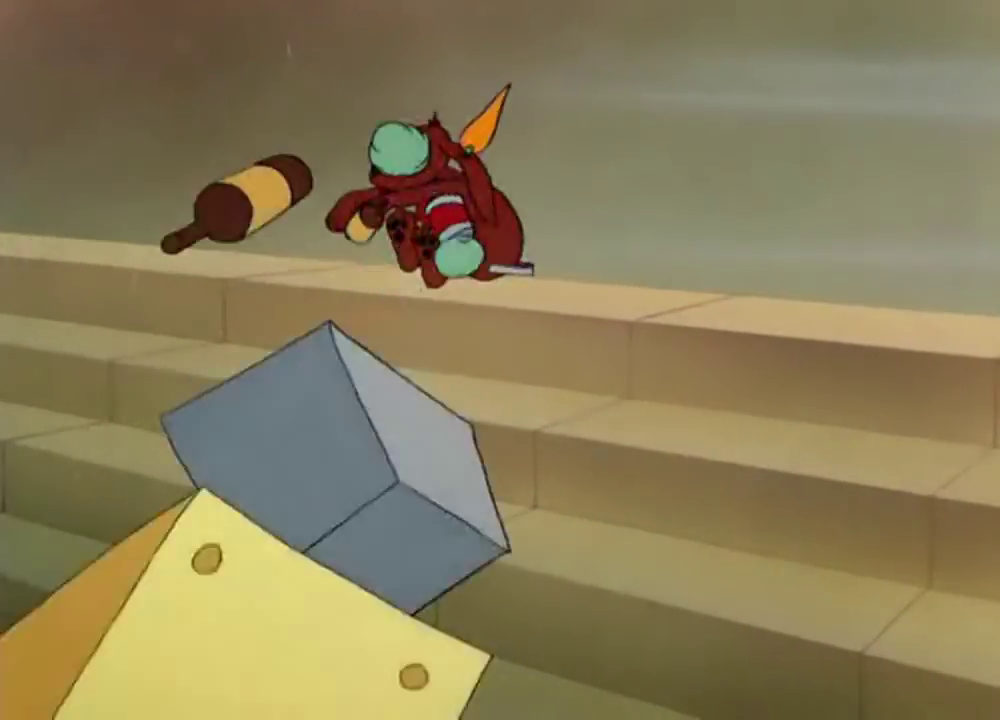 Screen capture of To Duck or Not to Duck, a 1943 Looney Tunes cartoon directed by Charles M. Jones, produced by Leon Schlesinger, and featuring Daffy Duck and Elmer J. Fudd. This screen capture shows Fudd's hunting dog, Laramore (whose name fits Fudd's speech impediment well), being knocked out of the audience during a boxing fight between Fudd and Daffy, by having various brickbats thrown at him by spectators from an all-duck audience that is clearly in collective opposition of Fudd. This screen capture is taken from a YouTube uploading of the cartoon in question by CC Cartoons, which offers high-definition restored versions of public domain cartoons with closed captions for distribution on YouTube. The video in question can itself be found here.